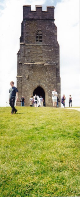 Glastonbury : Glastonbury Tor According to a website, Glastonbury Tor is home to Gwyn ap Nudd, King of the Fairies. In the human realm it is managed by The National Trust.